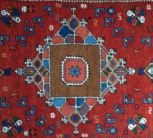 "Ghirlandaio" carpet medaillon in a Western Anatolian DOBAG carpet